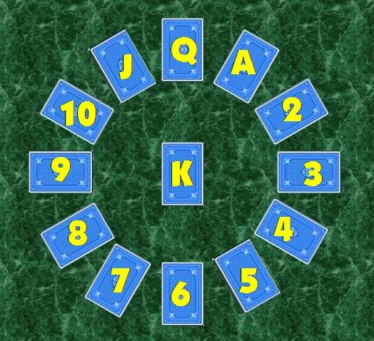 This is a diagram of the solitaire game of Clock Solitaire, based on a simulated layout. The image is made in Microsoft Powerpoint and the cards used were based on the SVG Playing Cards.